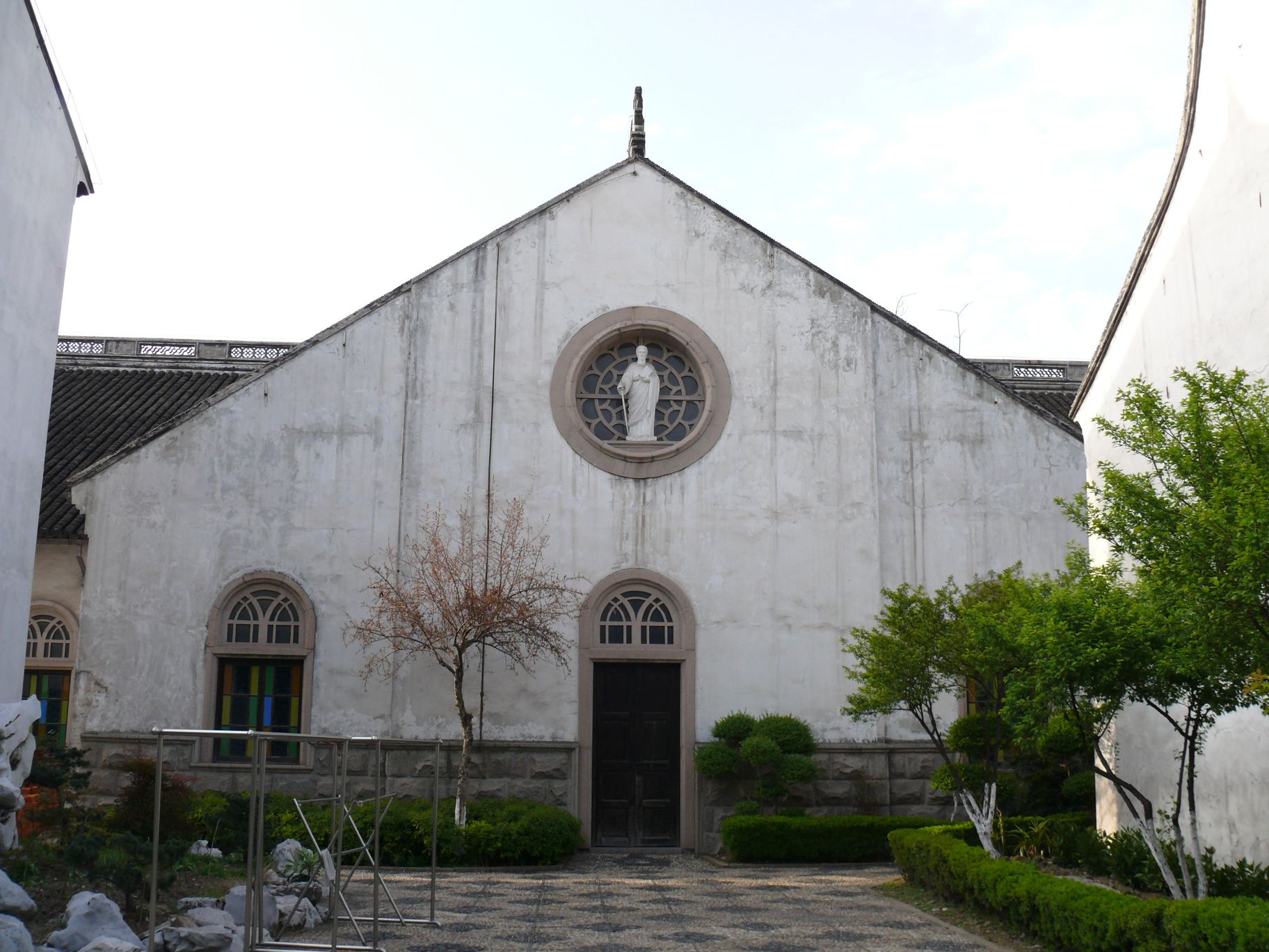 Cathedral of Our Lady of the Seven Sorrows in Suzhou (China)